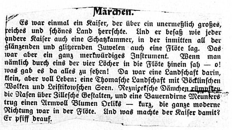 from the German author Kurt Tucholsky